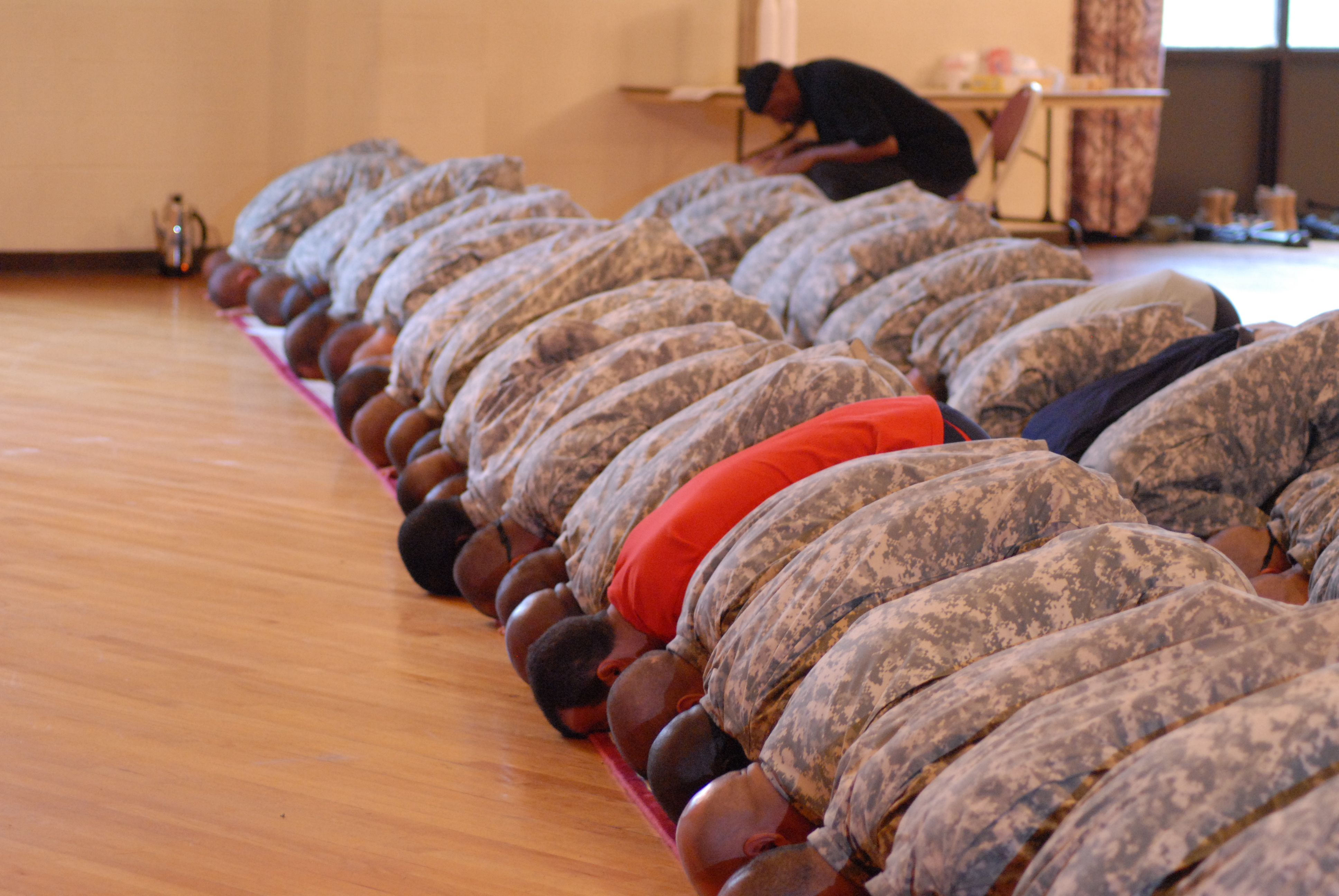 Muslim Soldiers bow down in prayer during the celebration of Eid-Al-Fitr Sunday at the Joe E. Mann Center. Eid-Al-Fitr marks the end of Ramadan, the holy month for Muslims worldwide.